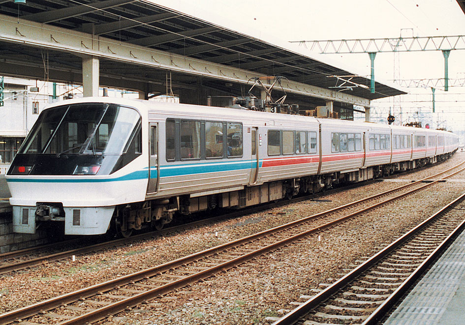 JR Kyushu 783 series EMU on a Kamome service